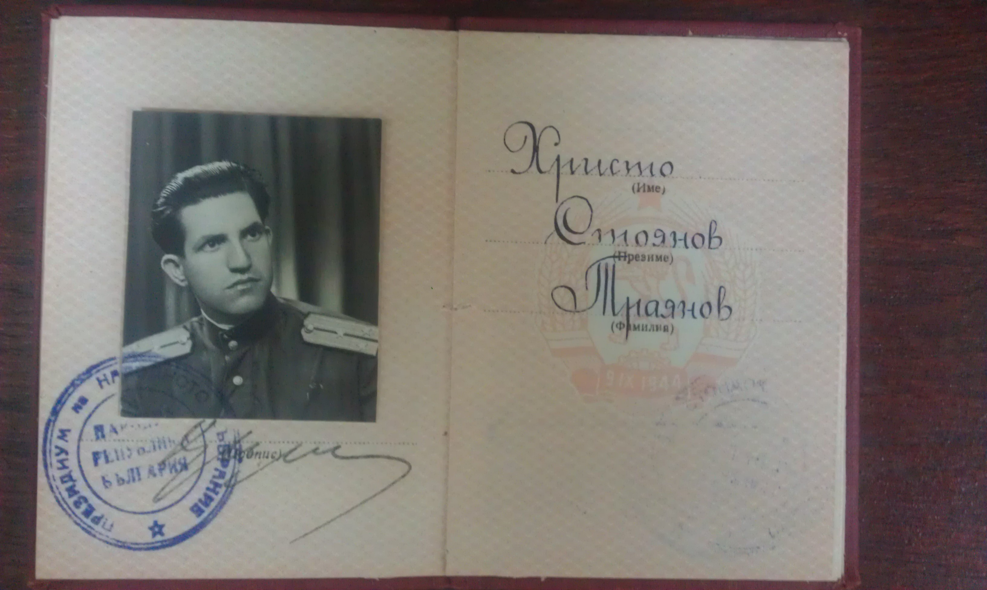 Орденска книжка за орден "Червено знаме" на Хр. Траянов